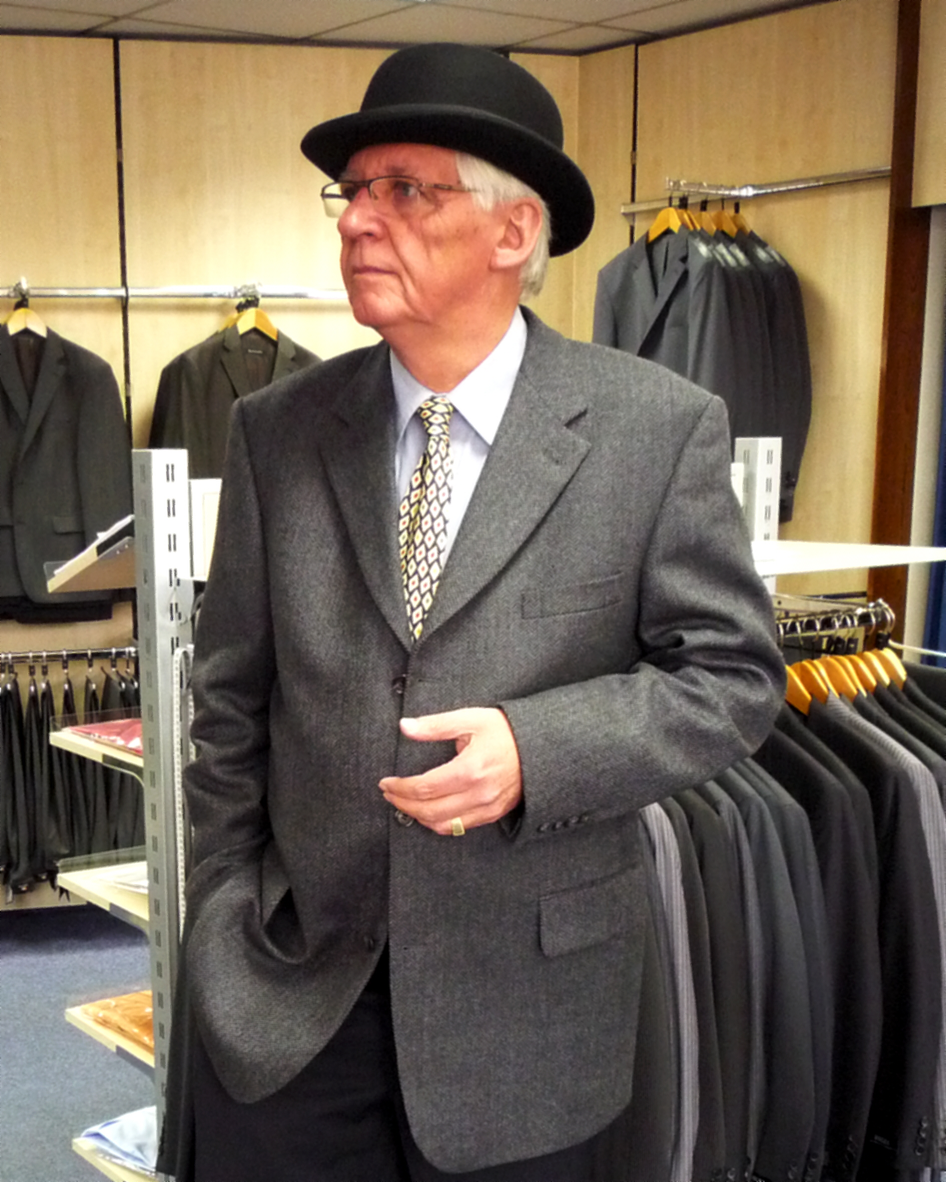 Photo showing Oxfordian Kissuth at Mann + Mode, men's fashion, Soltau, Lower Saxony, Germany.